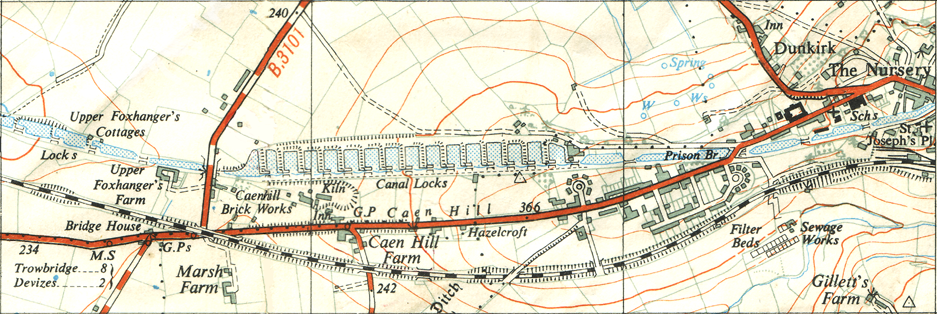 Detail (3000 metres by 1000 metres) from Ordnance Survey 1:25000 sheet ST96. Contours 25 feet. Survey:1949. Published: 1953.